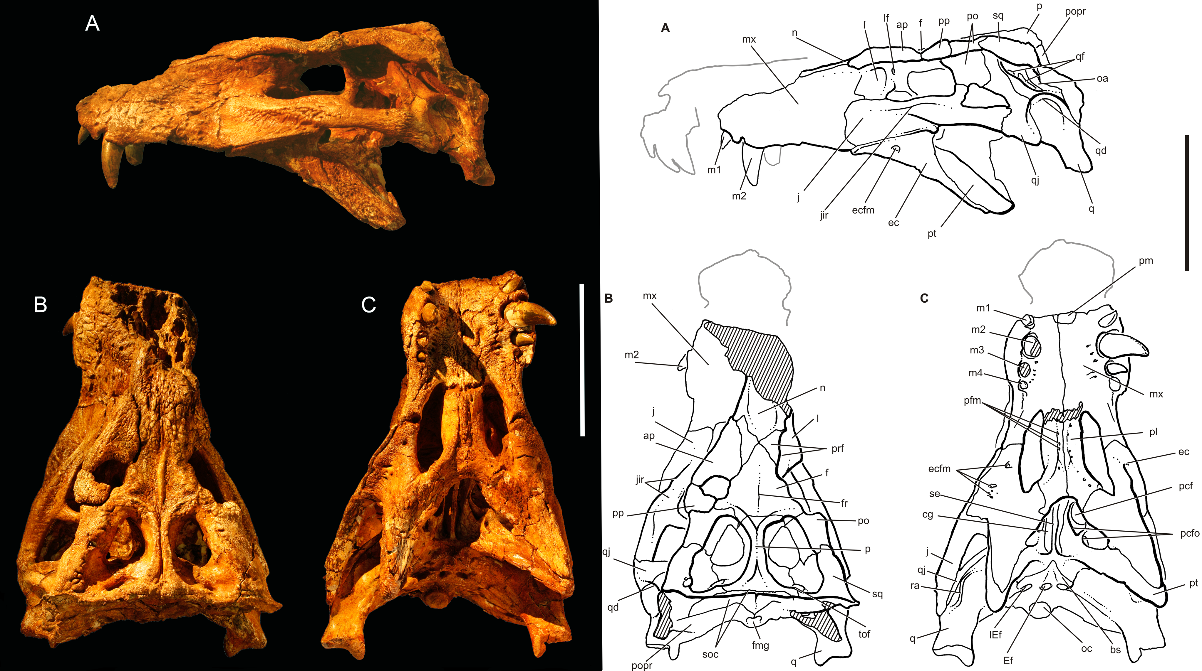 Left: Skull of the baurusuchid Pissarrachampsa sera (LPRP/USP 0019, holotype). A) lateral; B) dorsal; C) ventral views. B and C have depth of field calibrated to the skull table and palatal plane respectively. Scale bar equals 10 cm. Right: Skull of the baurusuchid Pissarrachampsa sera. A) and C) Drawing of the skull LPRP/USP 0019 (holotype) in strict lateral (left) and ventral views, respectively. B) Reconstruction of the dorsal surface of the same skull, based on a strict dorsal view of skull roof and a slightly posterodorsal view of the occipital plane. Hatched areas indicate broken surfaces. Reconstruction of the anterior part of the rostrum based on the referred specimen (LPRP/USP 0018). Abbreviations: ap, anterior palpebral; bs, basisphenoid; cg, choanal groove; ec, ectopterygoid; ecfm, ectopterygoid foramina; Ef, medial Eustachian foramen; f, frontal; fmg, foramen magnum; fr, frontal ridge; j, jugal; jir, jugal infraorbital ridge; l, lacrimal; lEf, lateral Eustachian foramen; lf, lacrimal duct foramen; mx, maxilla; m1-m4, maxillary teeth (1–4); n, nasal; oa, otic aperture; oc, occipital condyle; p, parietal; pcf, parachoanal fenestra; pcfo, parachoanal fossae; pfm, palatine foramina; pfp, pl, palatine; pm, premaxilla; po, postorbital; popr, paraoccipital process; pp, posterior palpebral; prf, prefrontal; pt, pterygoid; q, quadrate; qd, quadrate depression; qf, quadrate fenestrae; qj, quadratojugal; ra, ridge ‘A’; se, choanal septum; soc, supraoccipital; sq, squamosal; tof, temporo-orbital foramen. Scale bar equals 10 cm.